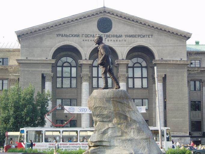 Ural State University frontside building. Statue of Yakov Sverdlov in front. (2005)